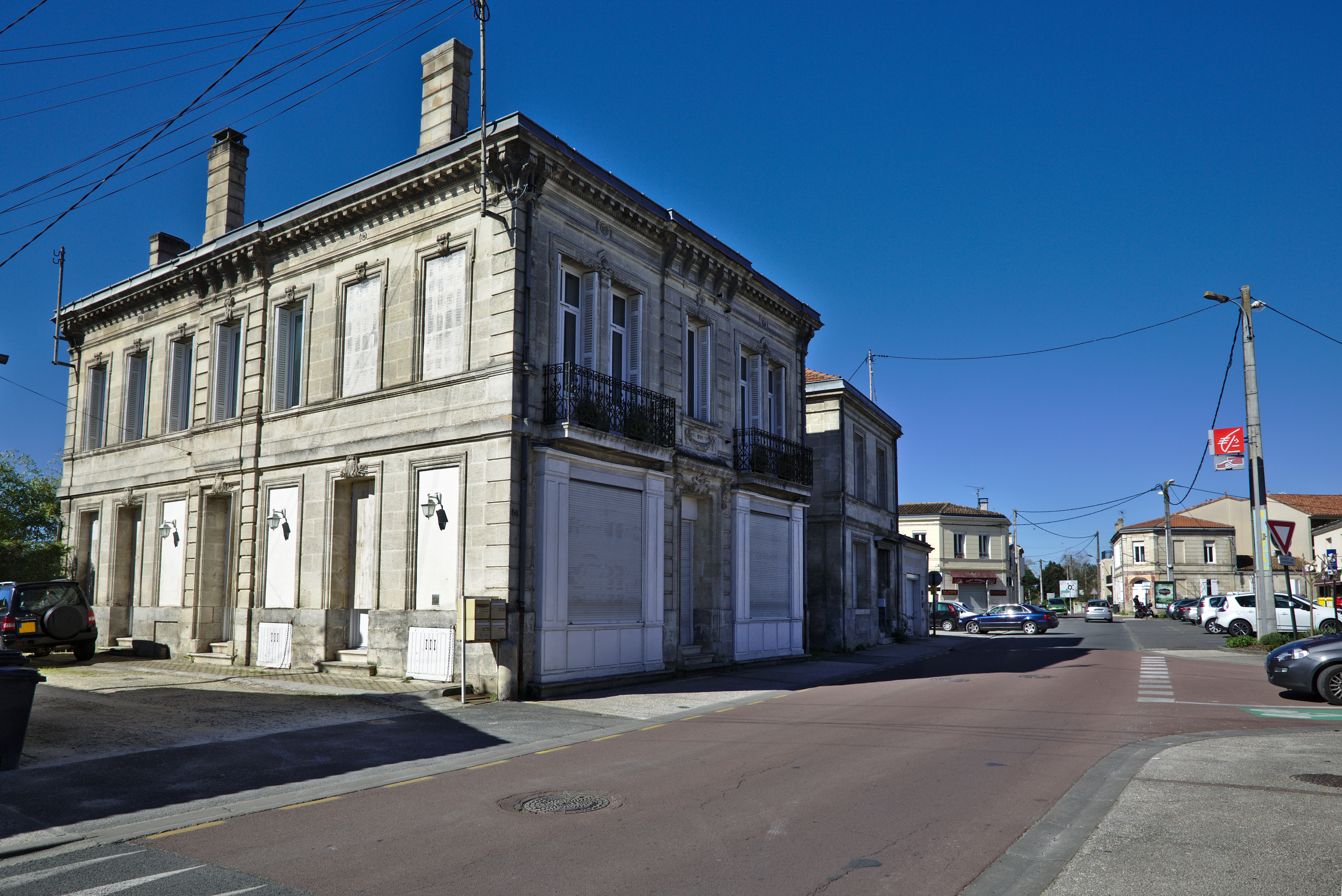 Immeuble de 1889 à Hastignan